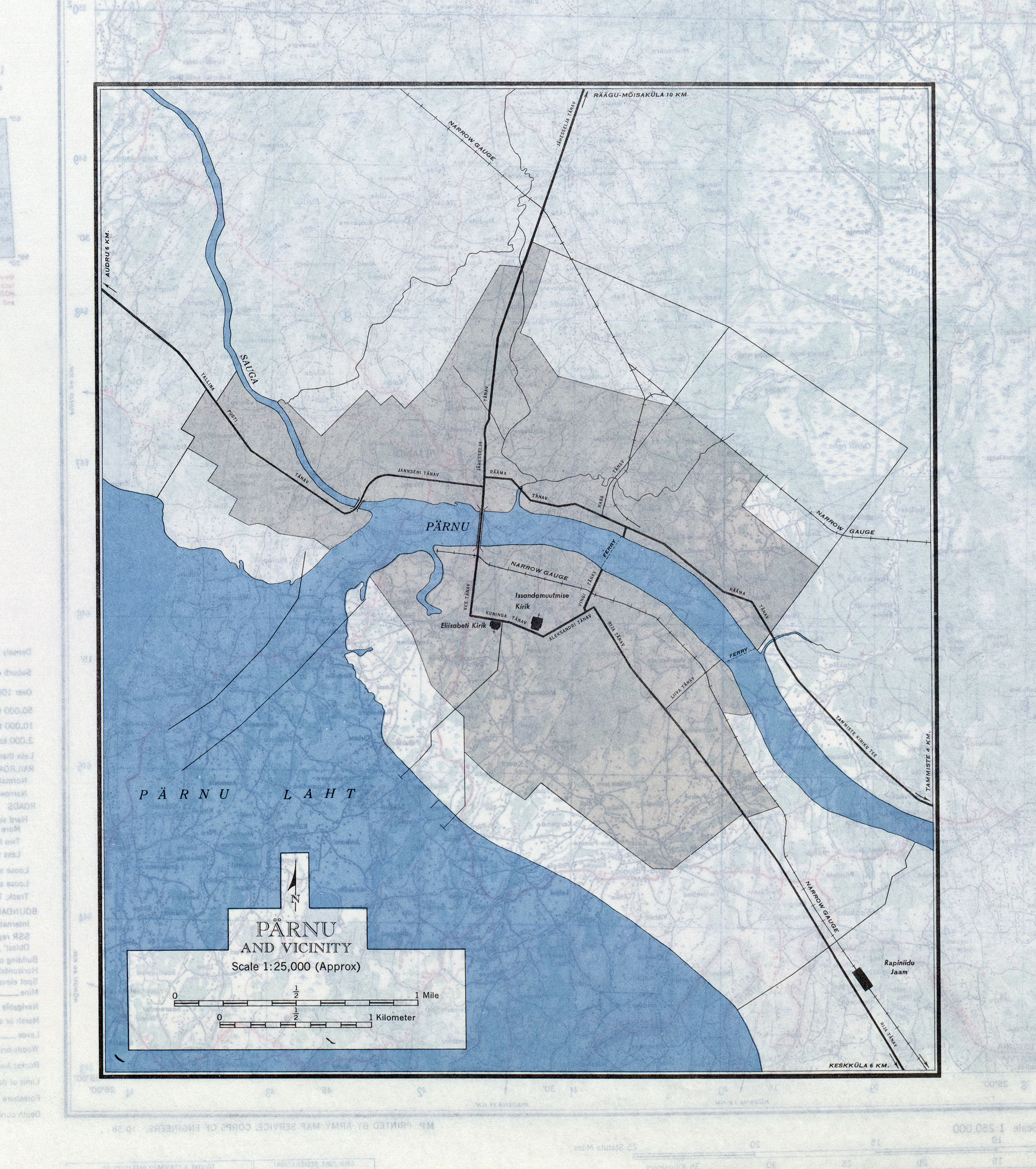 List from Eastern Europe AMS Topographic Maps. Series N501, U.S. Army Map Service, 1954